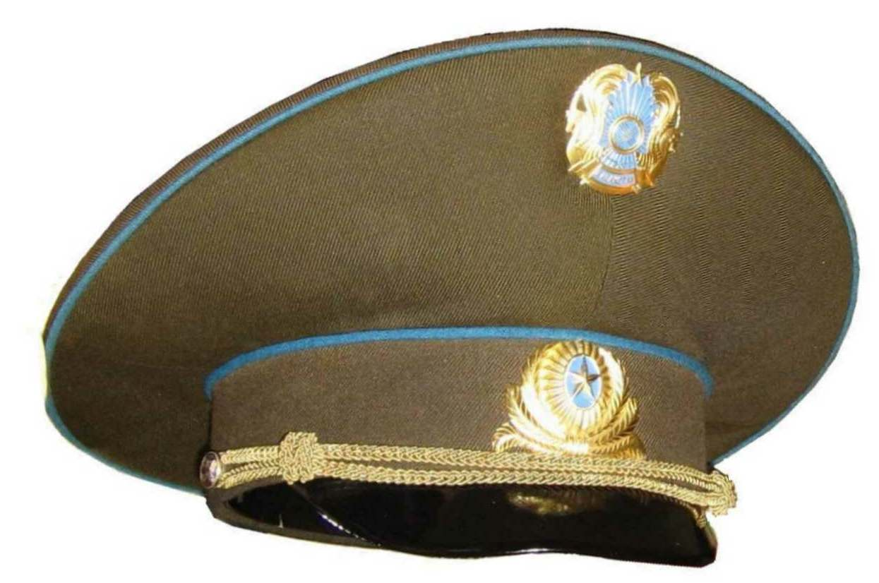 The dress cap of an officer of Kazakhstan Air Force